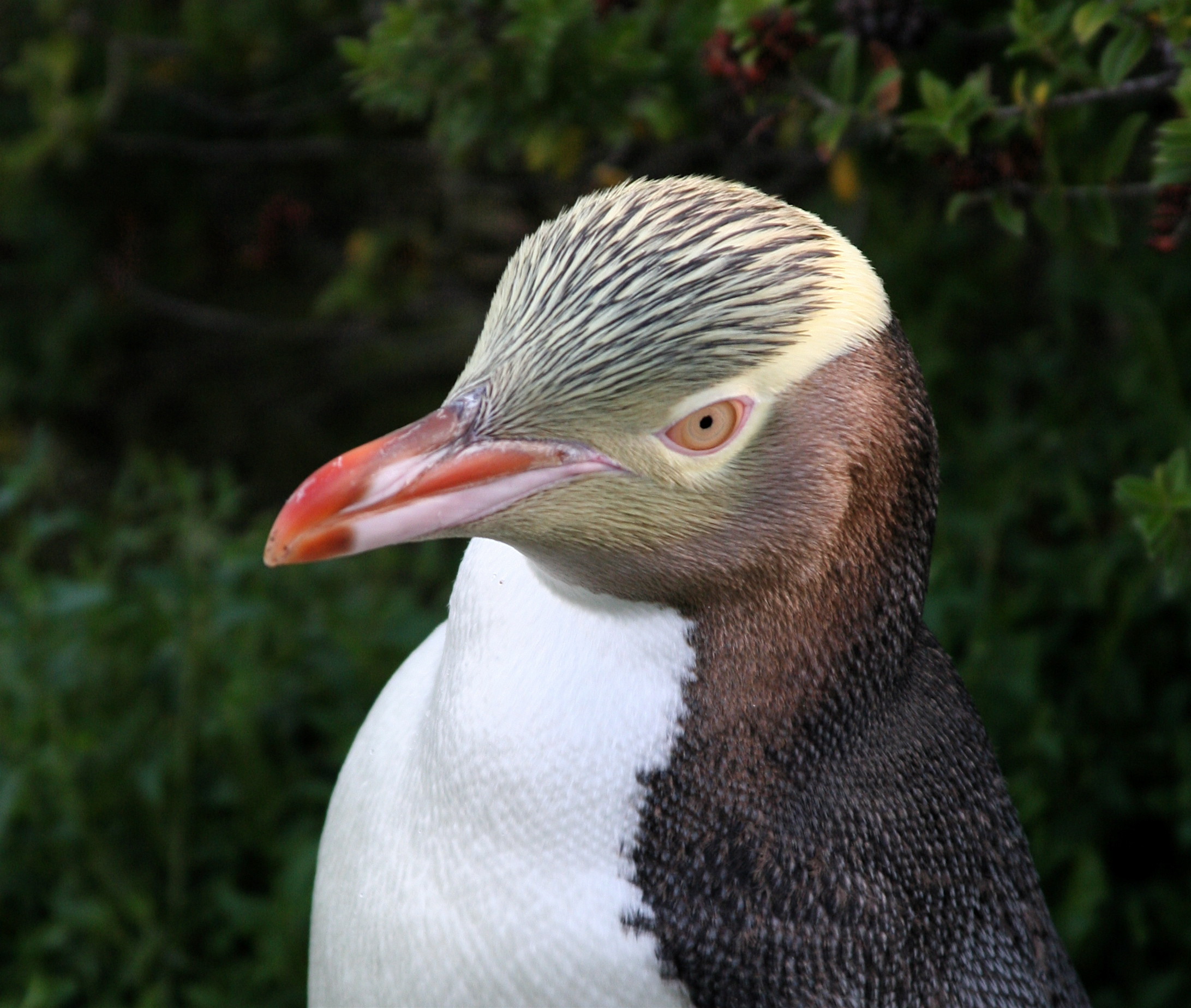 A Yellow-eyed Penguin in Oamaru, New Zealand.